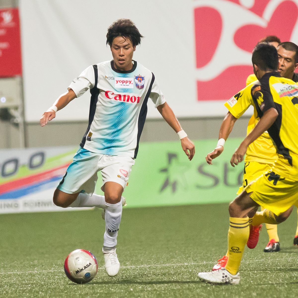 Kazuya Fukuzaki playing an S.League match against Tampines Rovers at Jalan Besar Stadium on 1 November 2013.